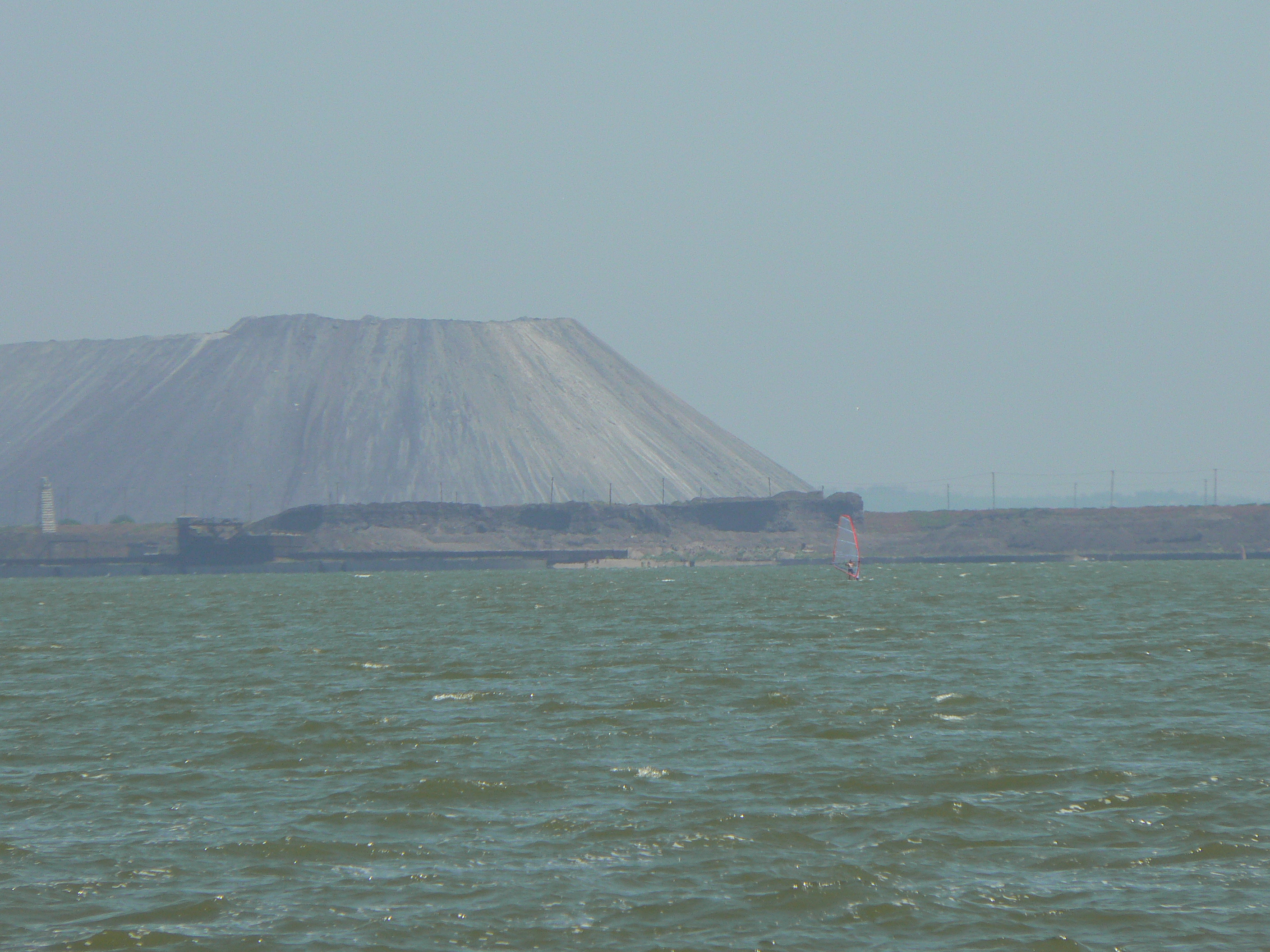 The photography illustrates slag dump of Azovstal plant. The slag dump is located on Azov sea coast, Mariupol, Ukraine